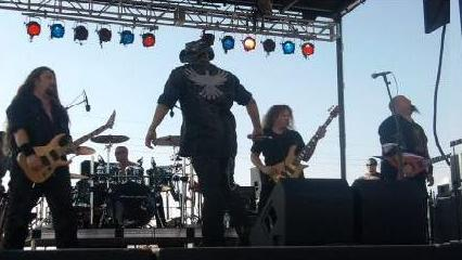 Photograph of Back From Ashes at U-Fest in Mesa, Arizona in September 2011